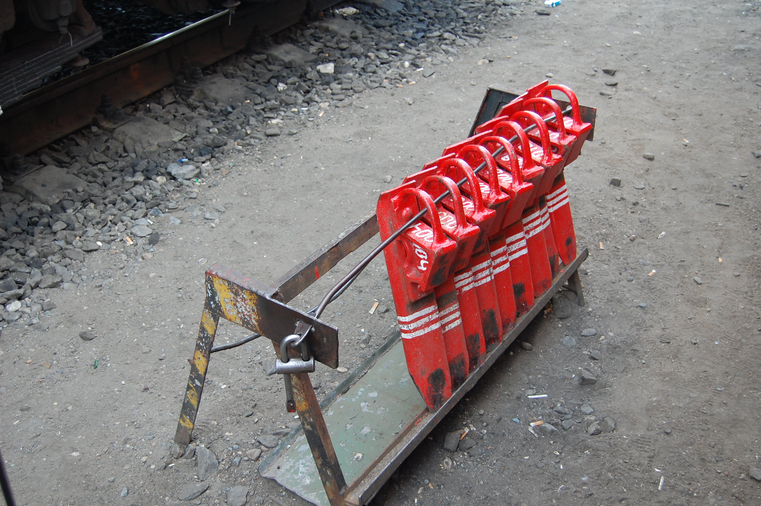 A stand of scotches (wedges)